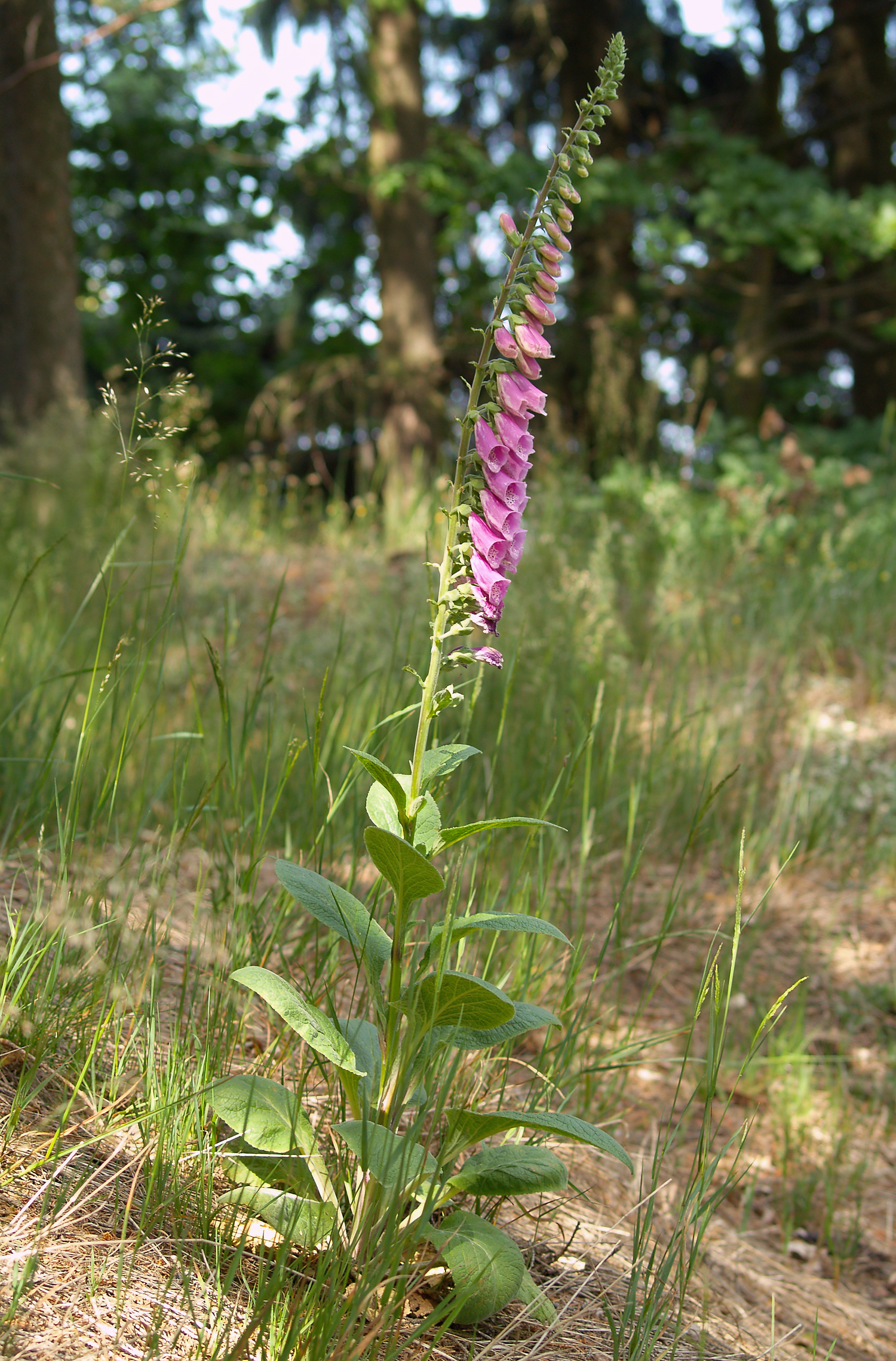 Purple Foxglove (Digitalis purpurea), Geyer, Germany